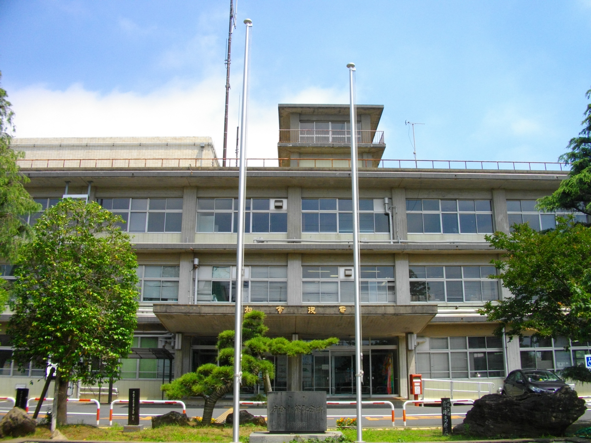 Asahi City Hall